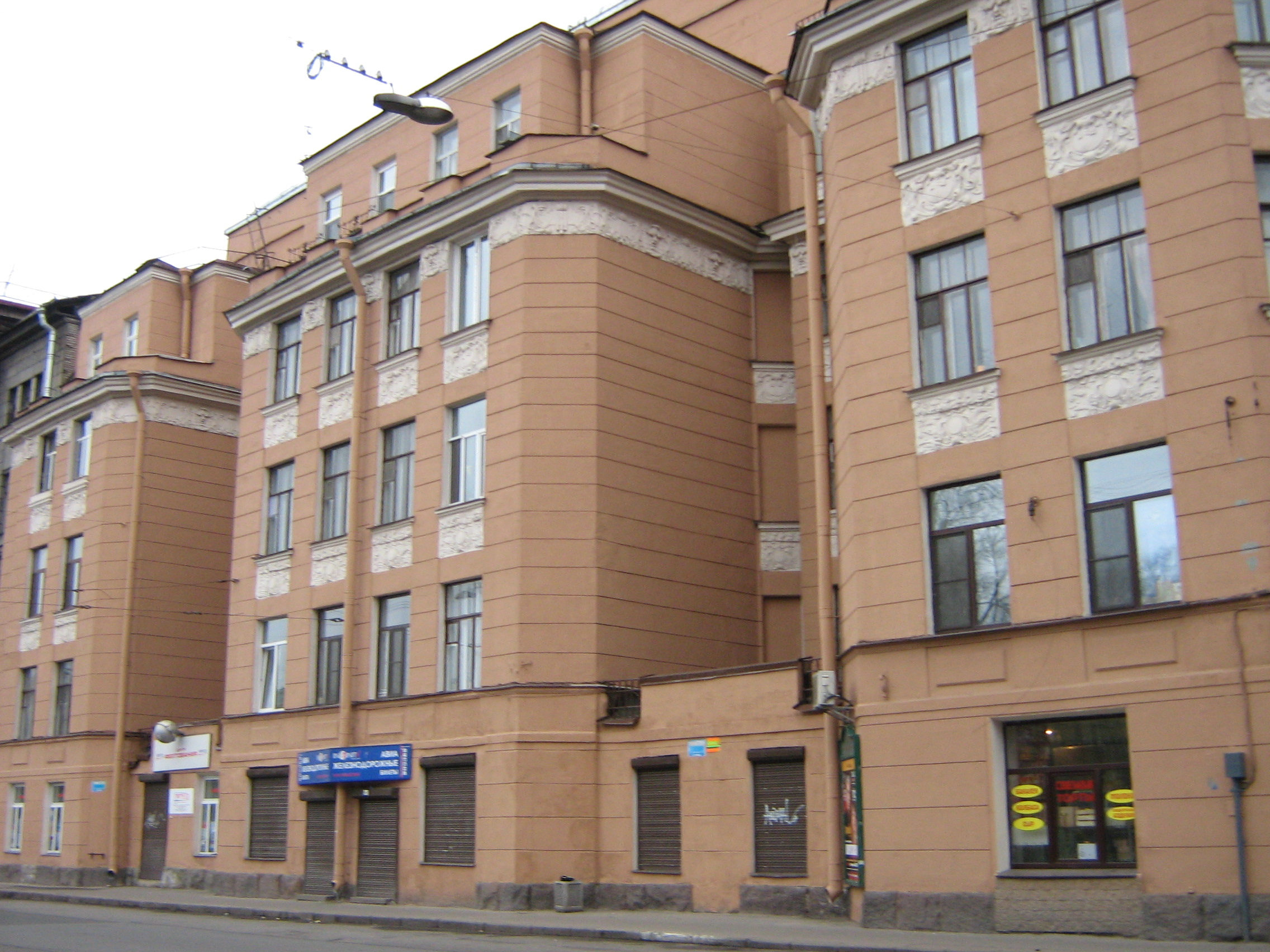 85, Maly Prospect P.S. (Small avenue of the Petrograd side) / 11, Ordinarnaya street, Saint-Petersburg, Russia. Architect V. V. Schaub, 1912-1913.